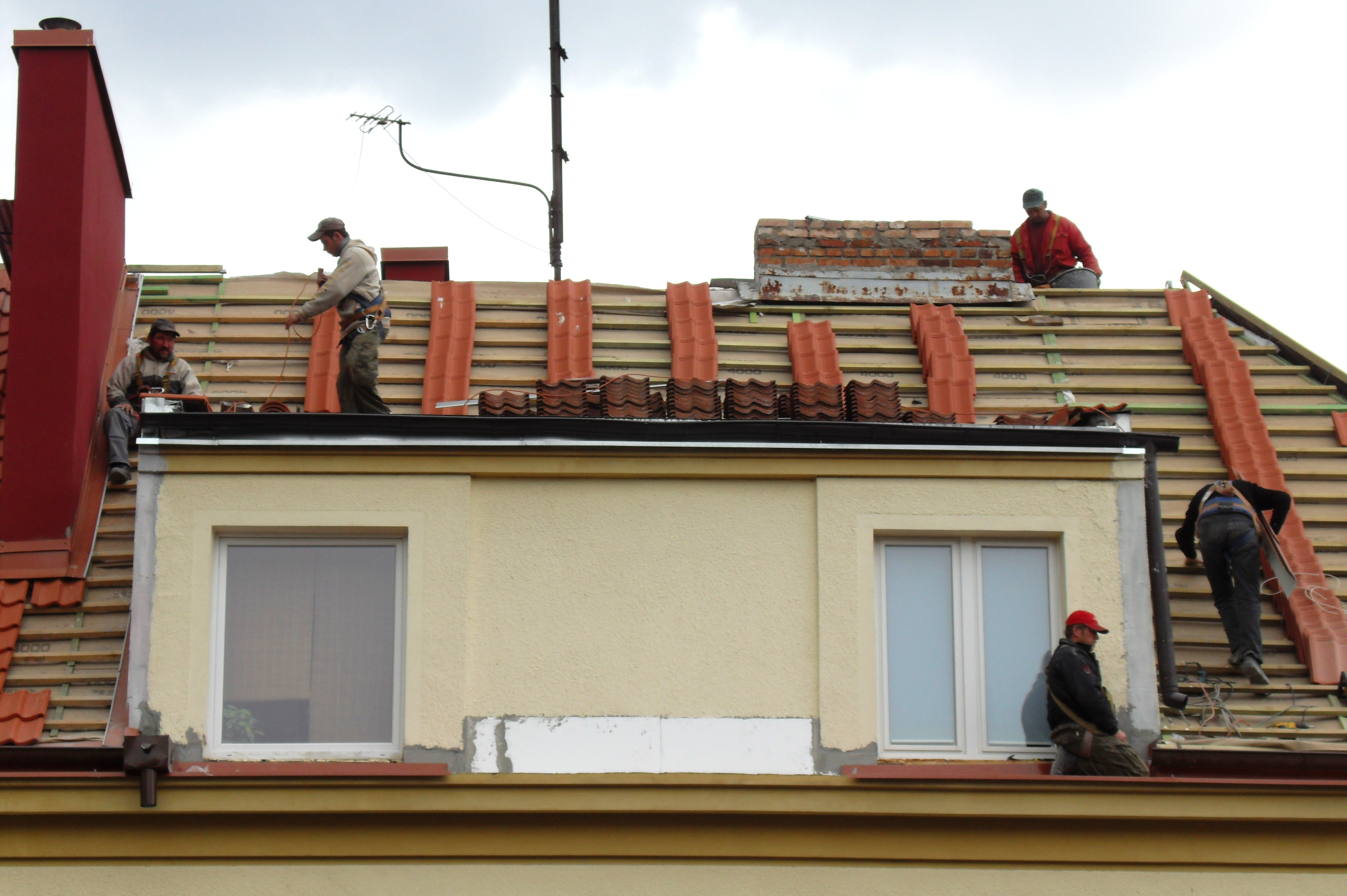 Roofers in Gdańsk (Poland).